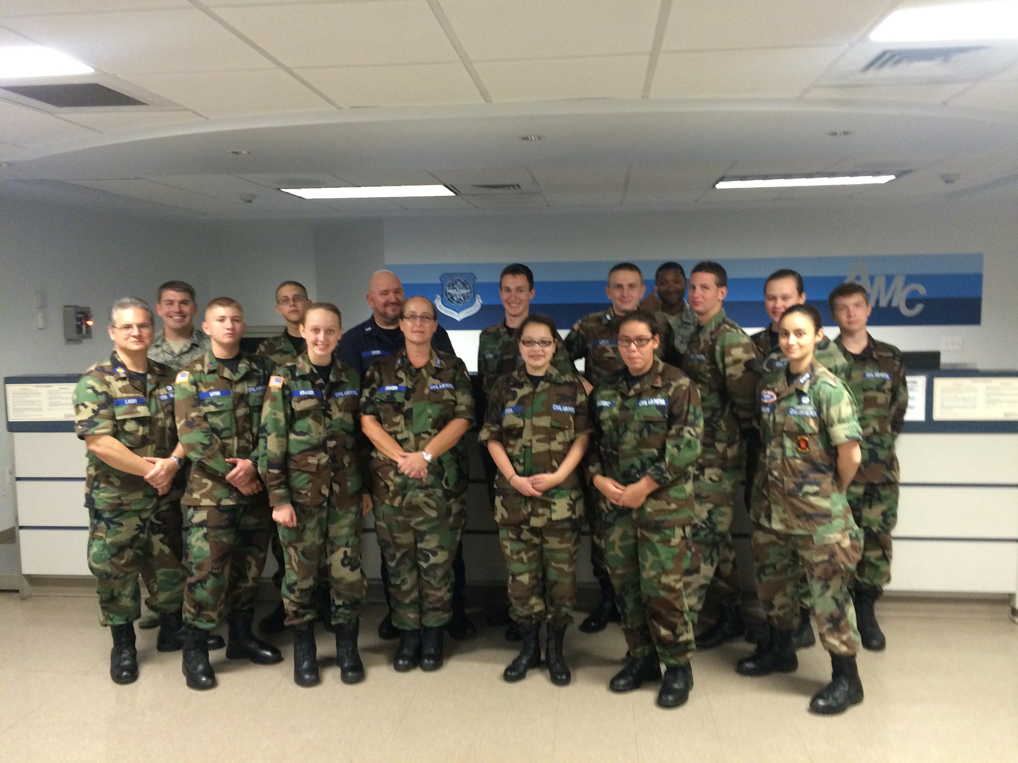 Members of the Civil Air Patrol from the Clearwater Composite Squadron took prepare for a flight out of MacDill AFB on a C-17 Globemaster III to Charleston AFB in support of an Aerospace Education mission, October 31 – November 2. The three missions of the Civil Air Patrol are: Emergency Services, Cadet Programs, and Aerospace Education. (U.S. Air Force Photo/A1C Danielle Conde)